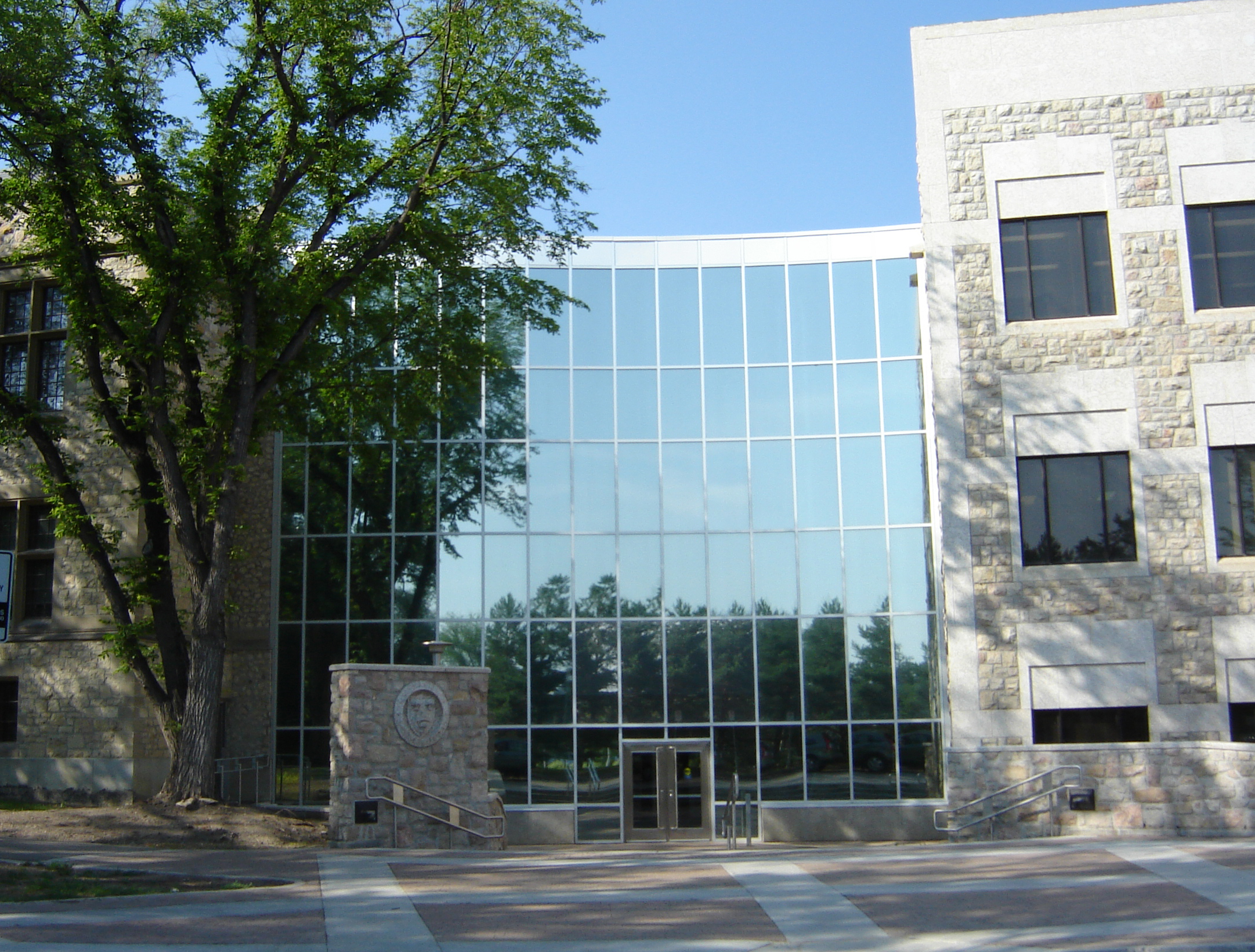 Administration Building U of S Saskatoon Saskatchewan Canada